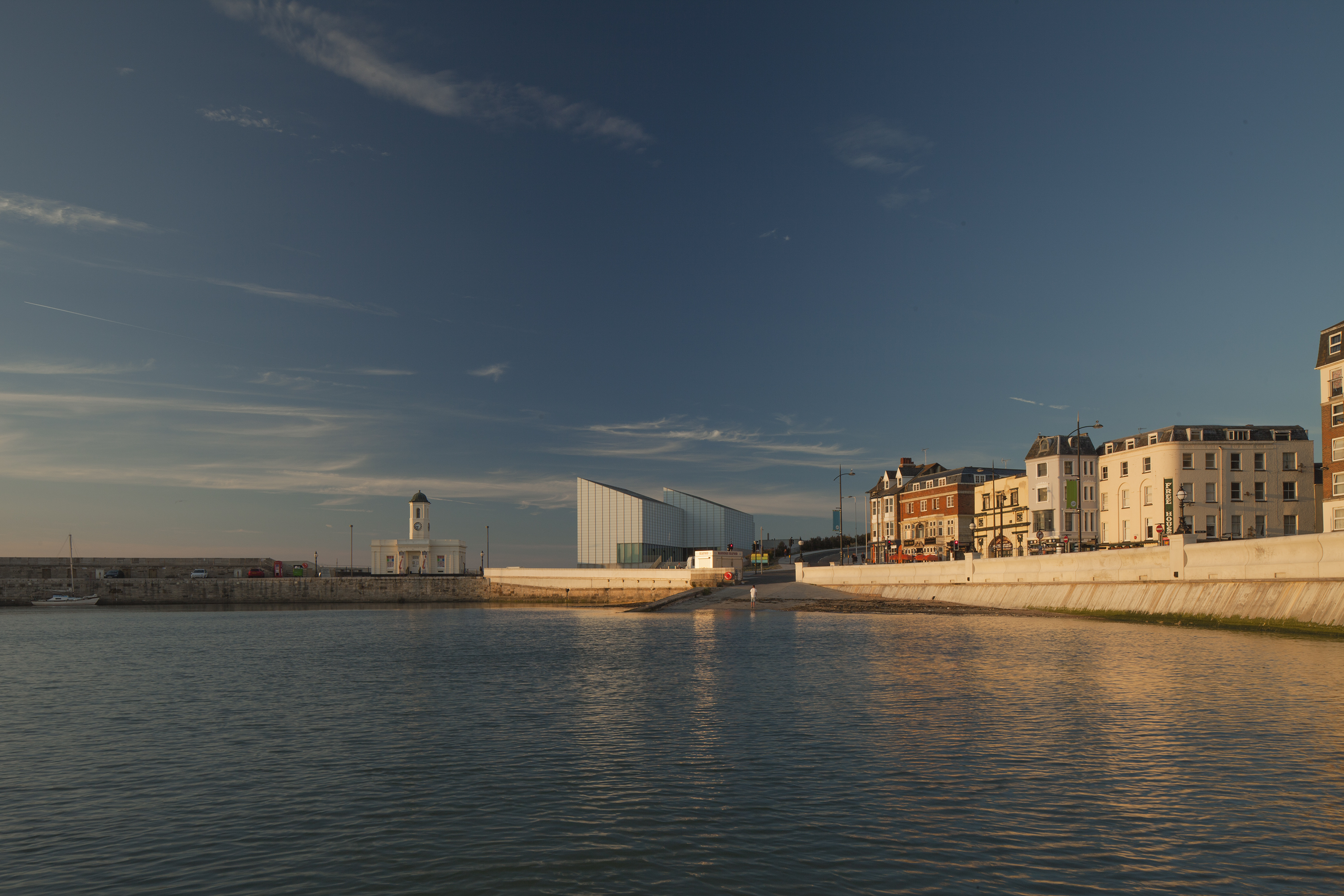 Turner Contemporary. Photo Benjamin Beker